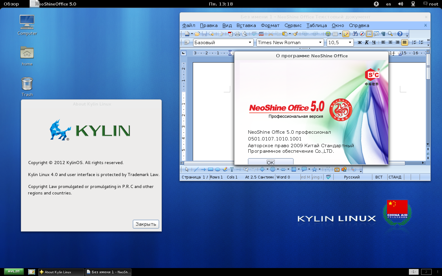 Screenshot of Kylin Linux operating system